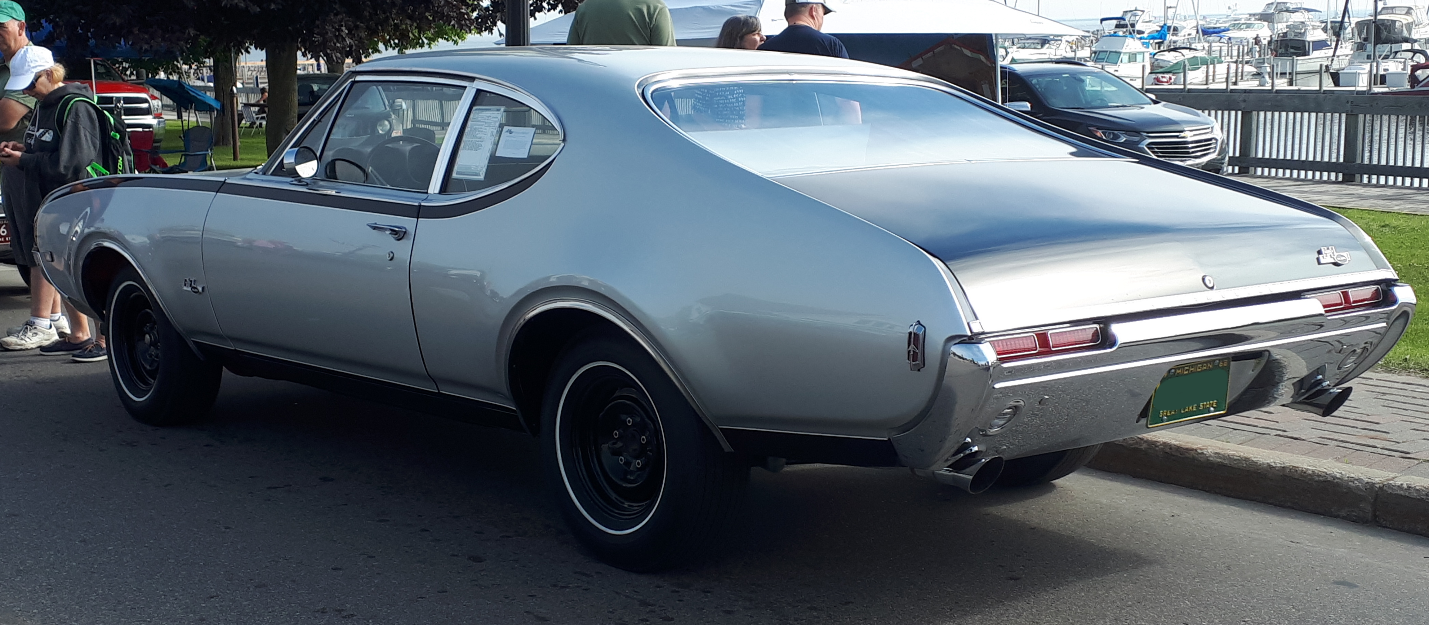 1968 Oldsmobile Hurst/Olds Sport Coupe photographed in St. Ignace, Michigan at the annual St. Ignace car show weekend. One of 51 made.